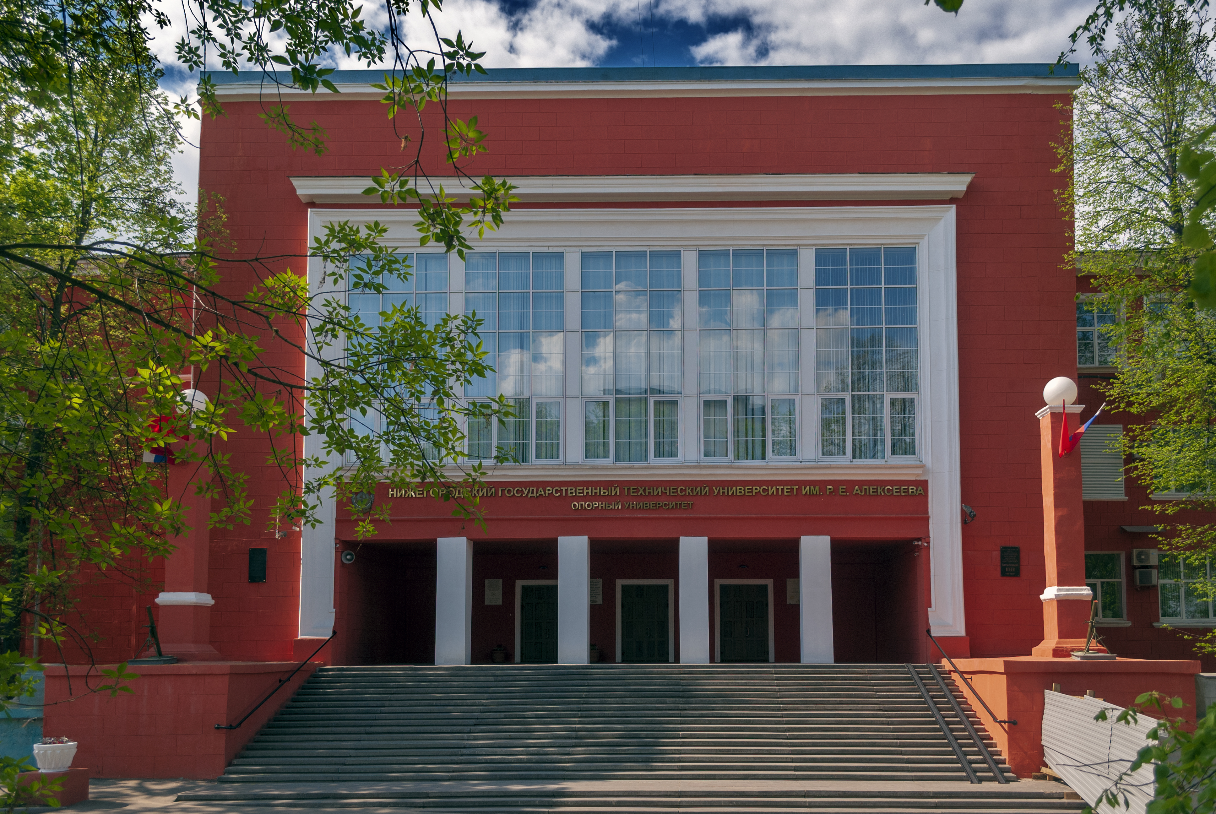 The first building of the Nizhny Novgorod State Technical University